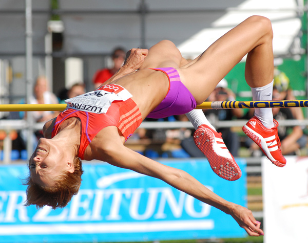 Vita Styopina 2012 at "Spitzen Leichtathletik Luzern, Lucerne, Switzerland